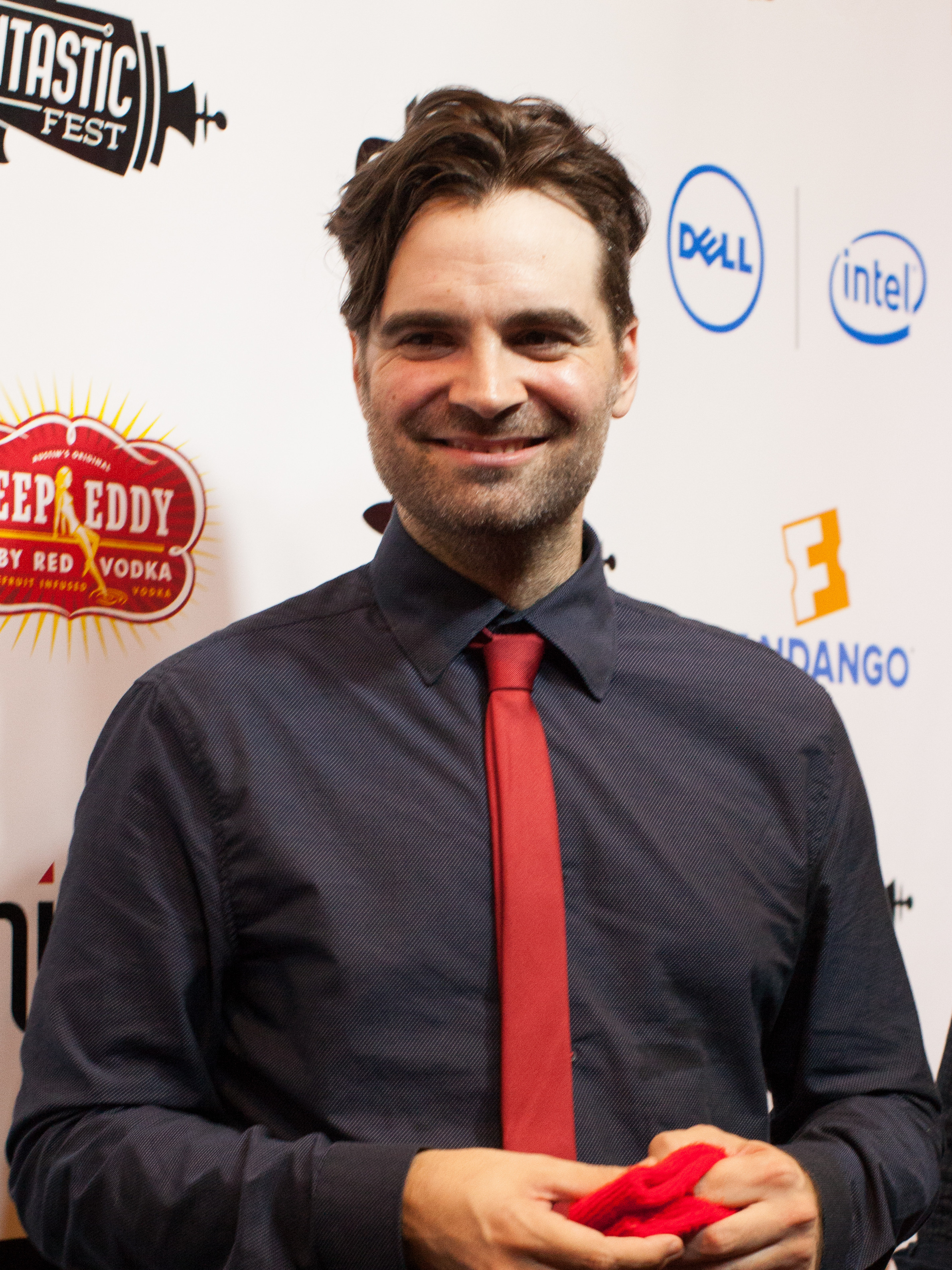 EVERLY red carpet Fantastic Fest 2014 --69.jpg